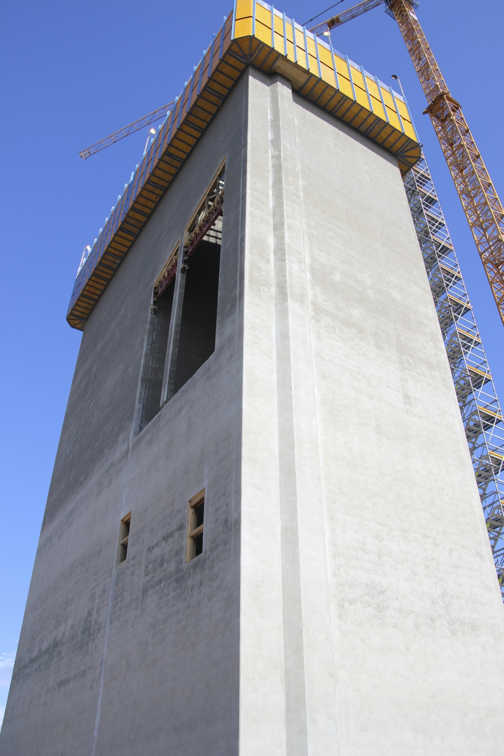 Slipform Monobox Bitschnau